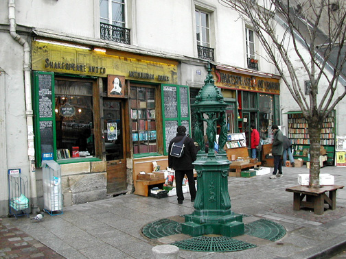 Title: Shakespeare and Company Taken on: 2004-09-19 11:11:16 Original source: - image description page